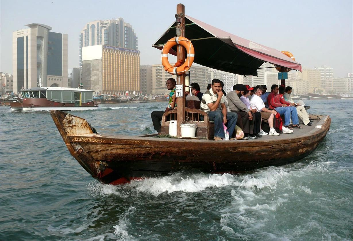 This is a photo of an abra crossing Dubai Creek in Dubai, United Arab Emirates on 15 March 2008. The buildings seen in the background are in Deira.